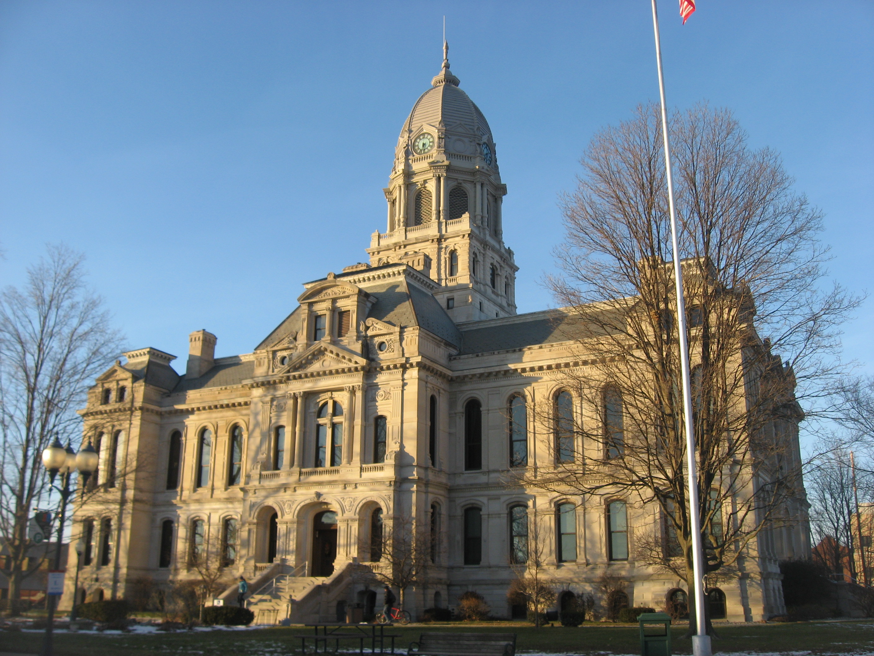 Front and eastern side of the Old Kosciusko County Courthouse, located at 613 E. Fort Wayne Street in Warsaw, Indiana, United States. Built in 1881, it is a part of the Warsaw Courthouse Square Historic District, a historic district that is listed on the National Register of Historic Places.